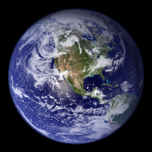 The Blue Marble, NASA Visible Earth, A catalog of NASA images and animations of our home planet